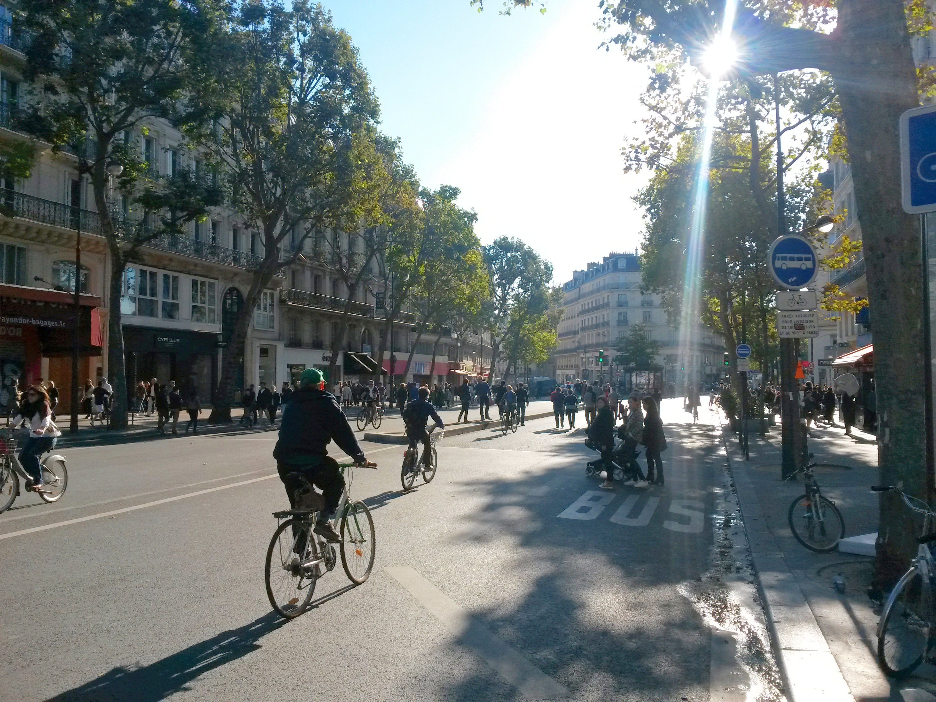 Journée sans voiture (Car-free Day in Paris), Rue du Temple, Paris, 2015-09-27.